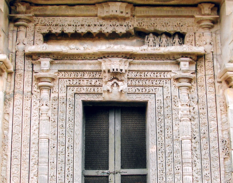 This image was taken at the Kasivisvesvara temple (also spelt Kasivishveshvara or Kashivishveshvara) in Lakkundi, Karnataka state, India. The temple is a 11th century Western Chalukya Empire construction during the reign of king Vikramaditya VI